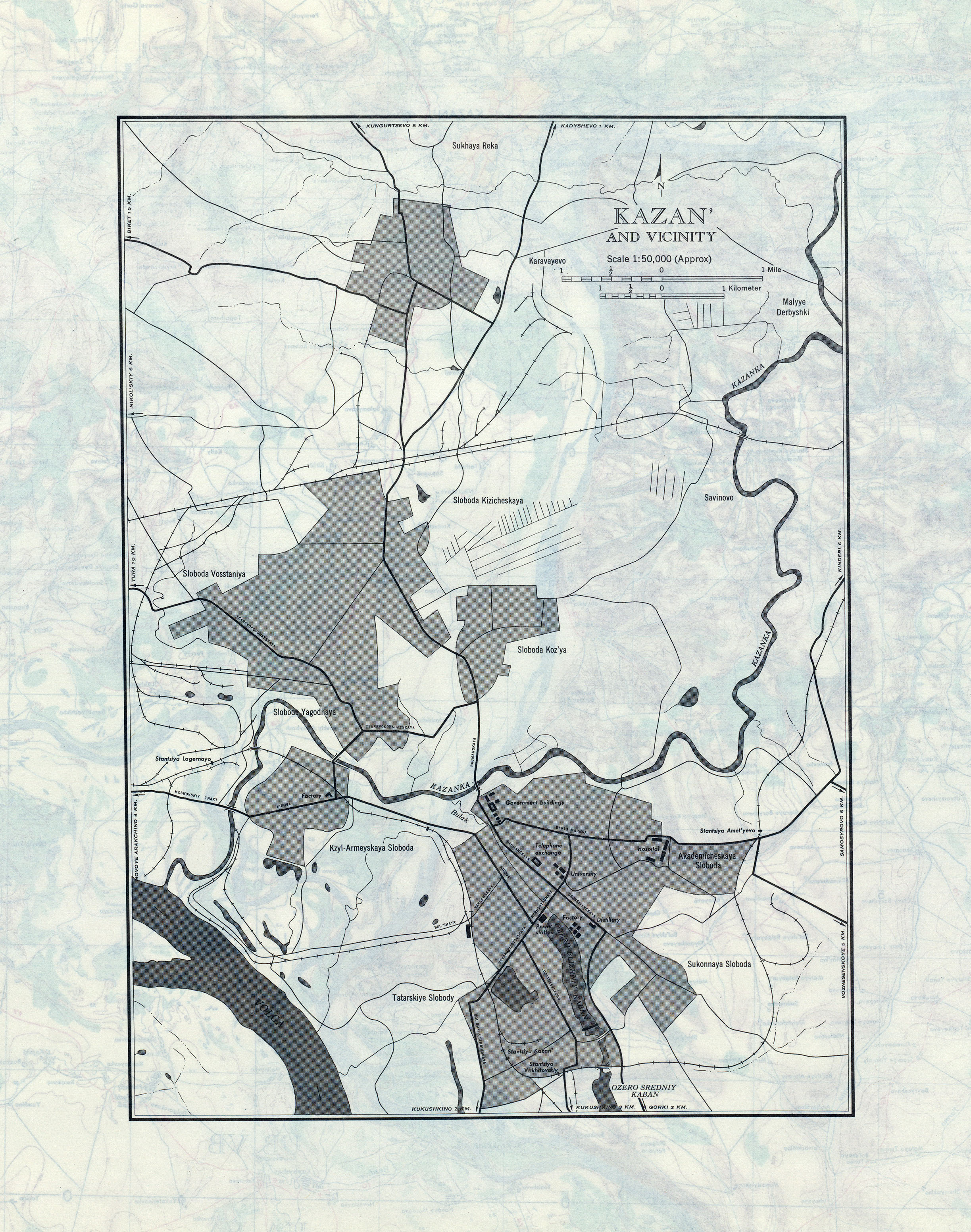 List from Eastern Europe AMS Topographic Maps. Series N501, U.S. Army Map Service, 1954